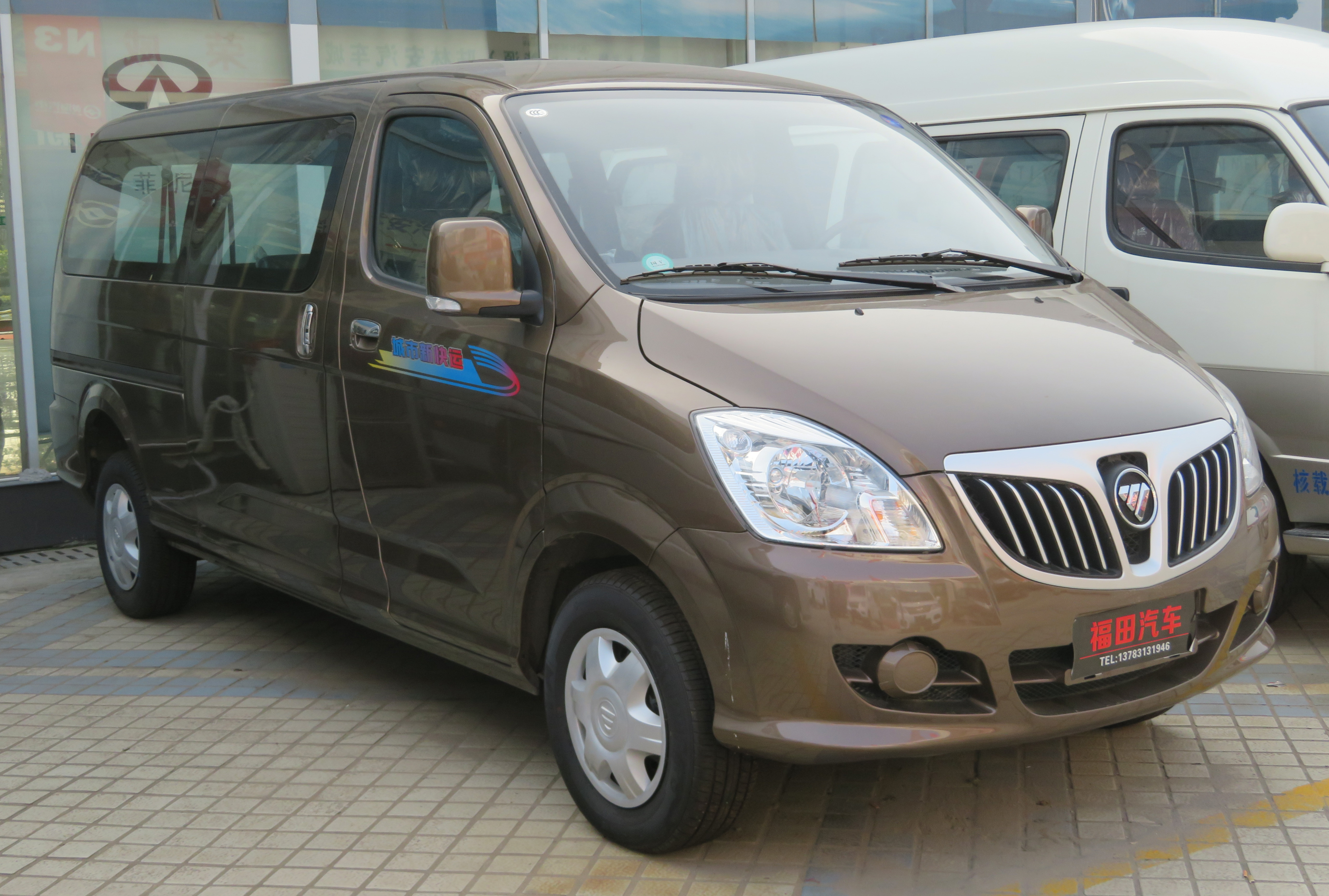 A 2018 Beiqi-Foton MP-X (蒙派克) photographed in Luoyang, Henan province, China